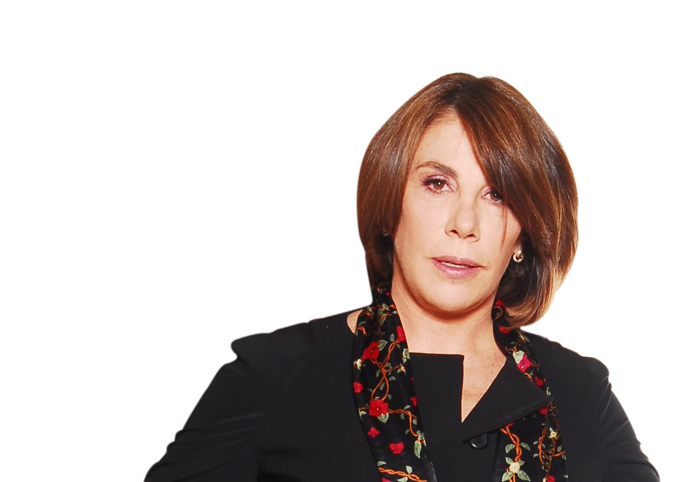 Close up of Sabina Berman